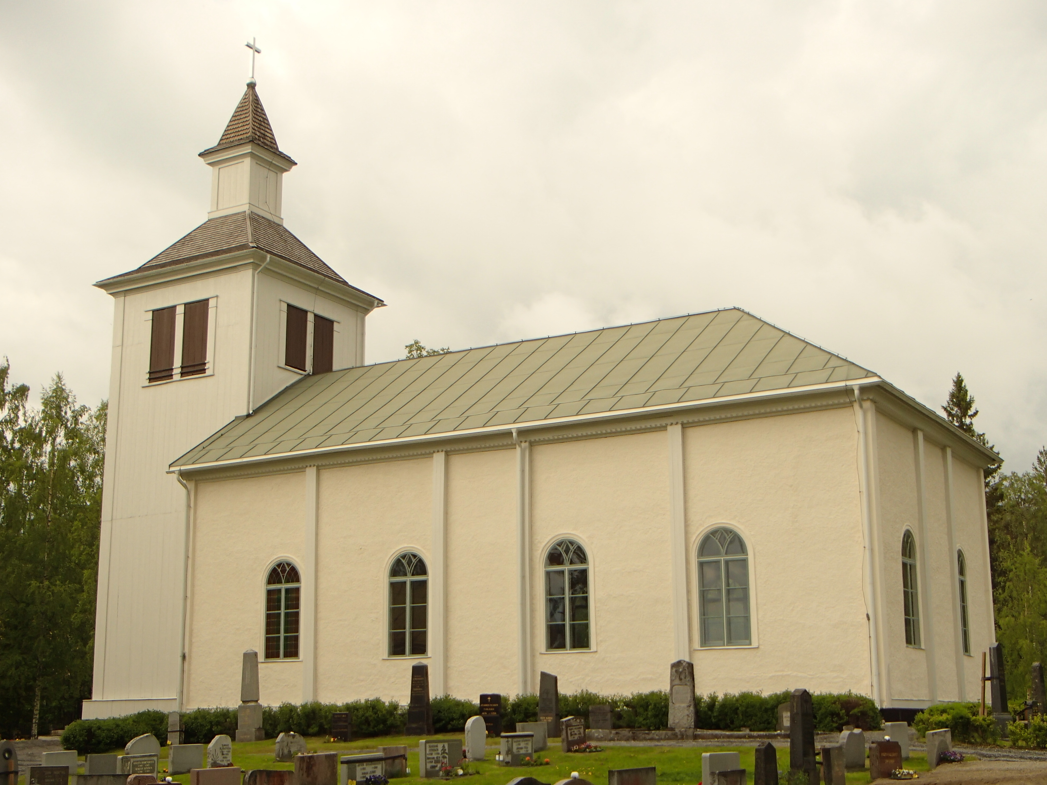 The church building of "Trehörningsjö kyrka" at Trehörningsjö in Örnsköldsvik Municipality